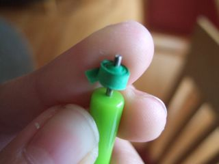 circle